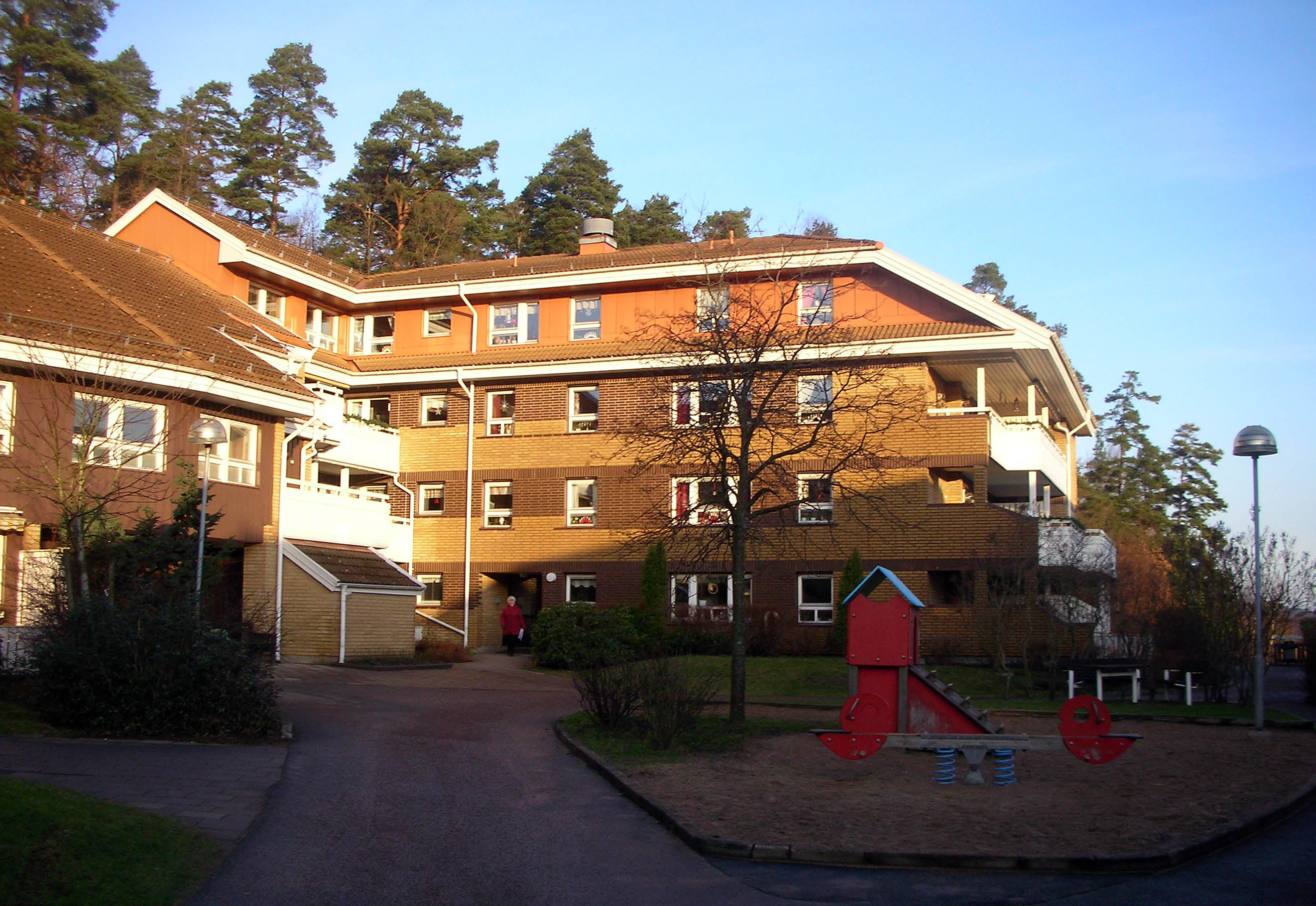 Residential housing in Björndammsterassen in Partille, Sweden.